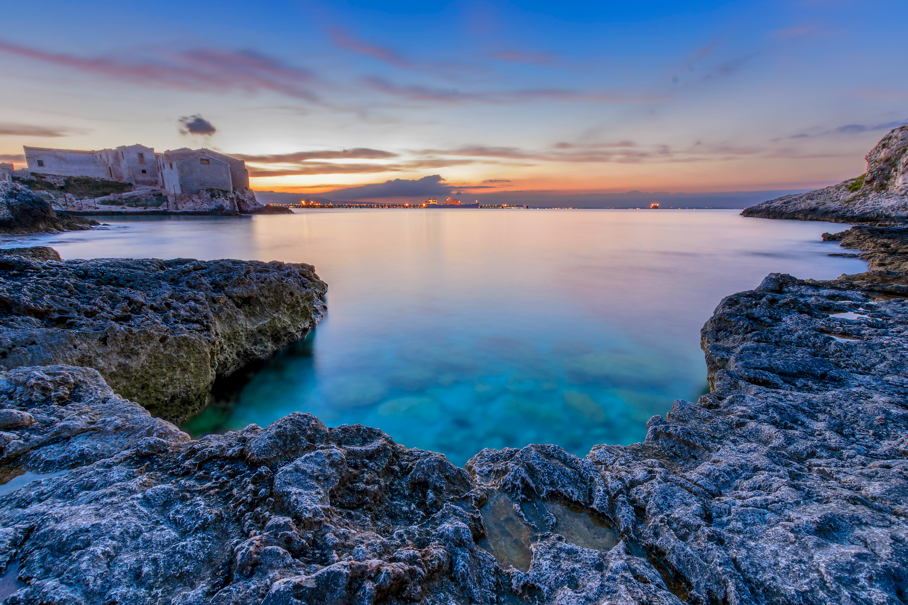 Syracuse Sicily